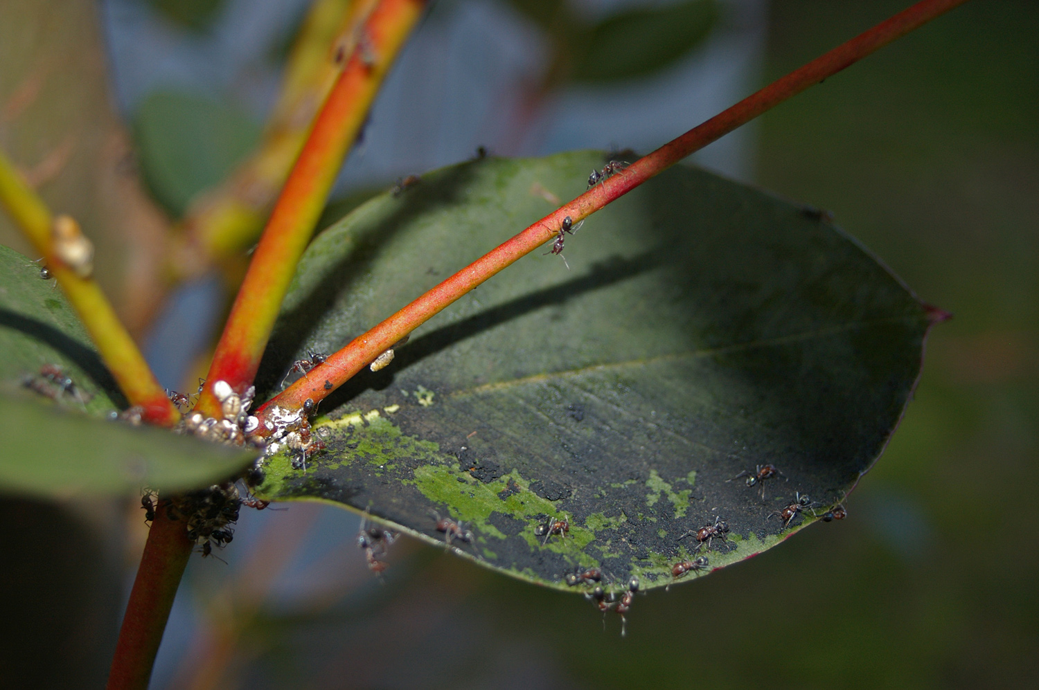 Scale and sooty mold plus Meat ants (Iridomyrmex purpureus) on an Eucalyptus dives. Because this photograph concerns privacy since this was taken on a private property, only an approximate location is provided: Wagga Wagga, New South Wales, Australia